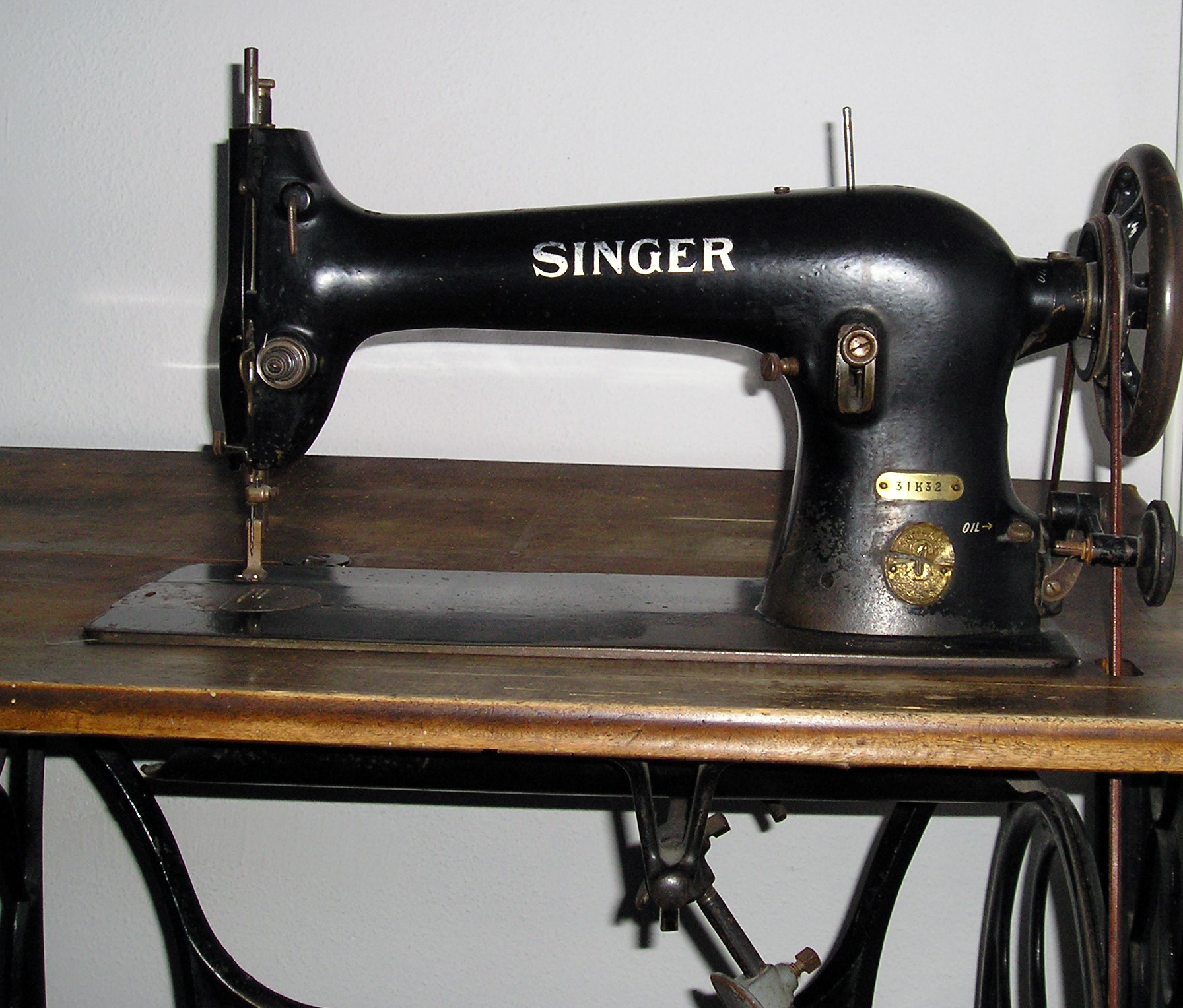 Singer sewing machine - 31K32 (detail 1)